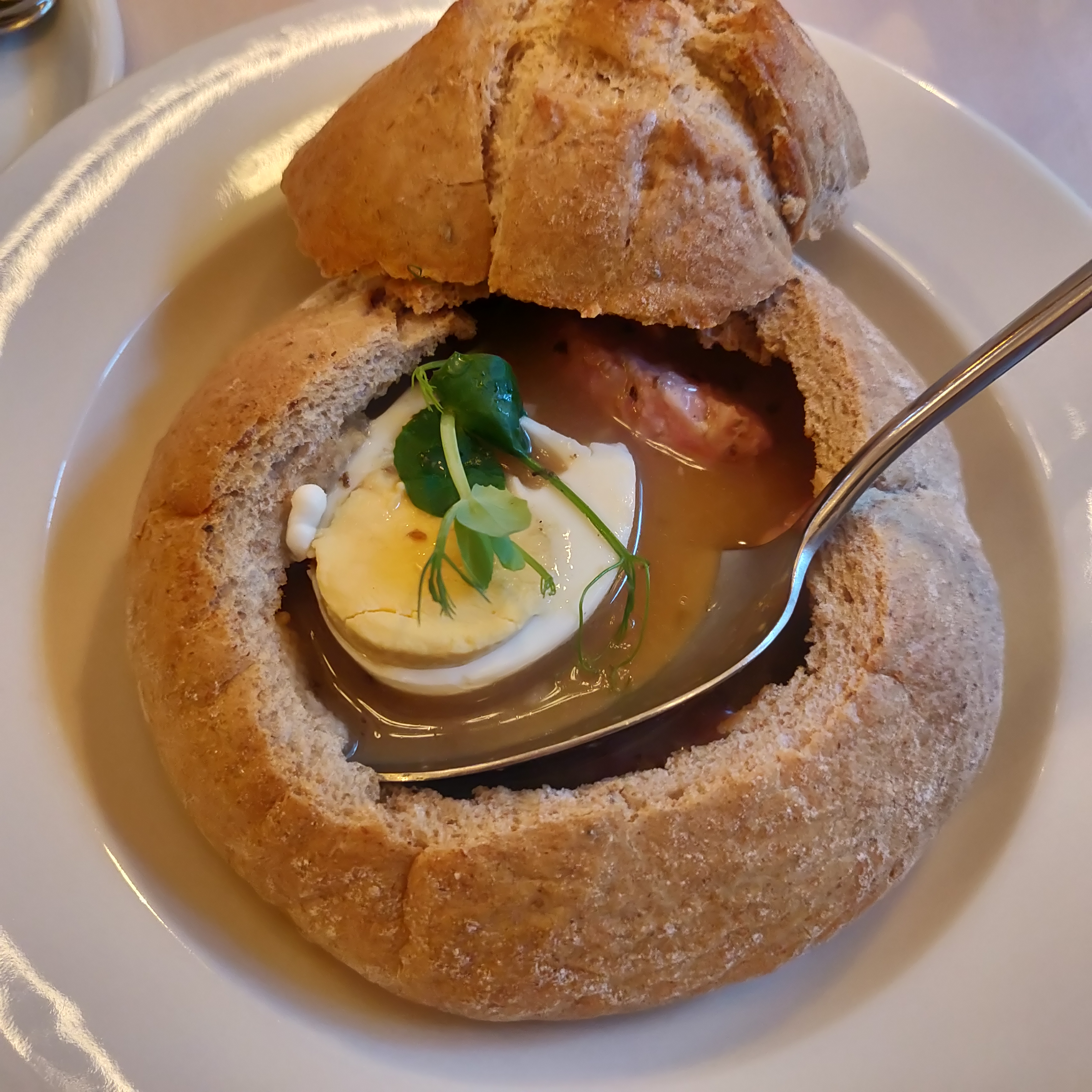 Polish sour soup as served in Enoteka, Warsaw.